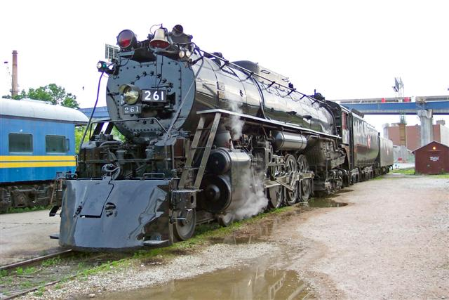 Milwaukee Road 261. Picture taken by me on 6/22/06 in Milwaukee at about 7:15pm CST at the main station in downtown Milwaukee